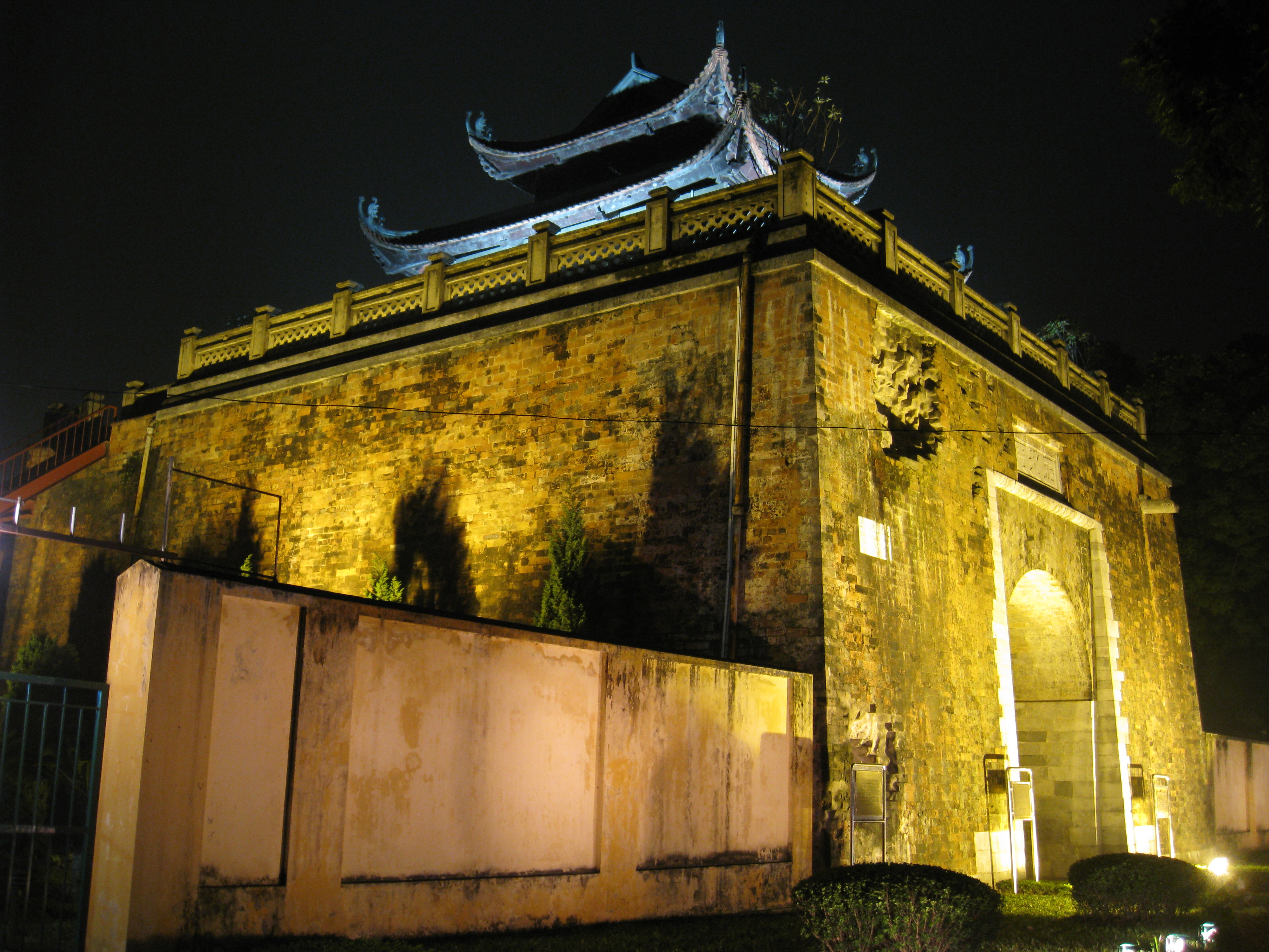 North Gate of Thăng Long Imperial City at night.